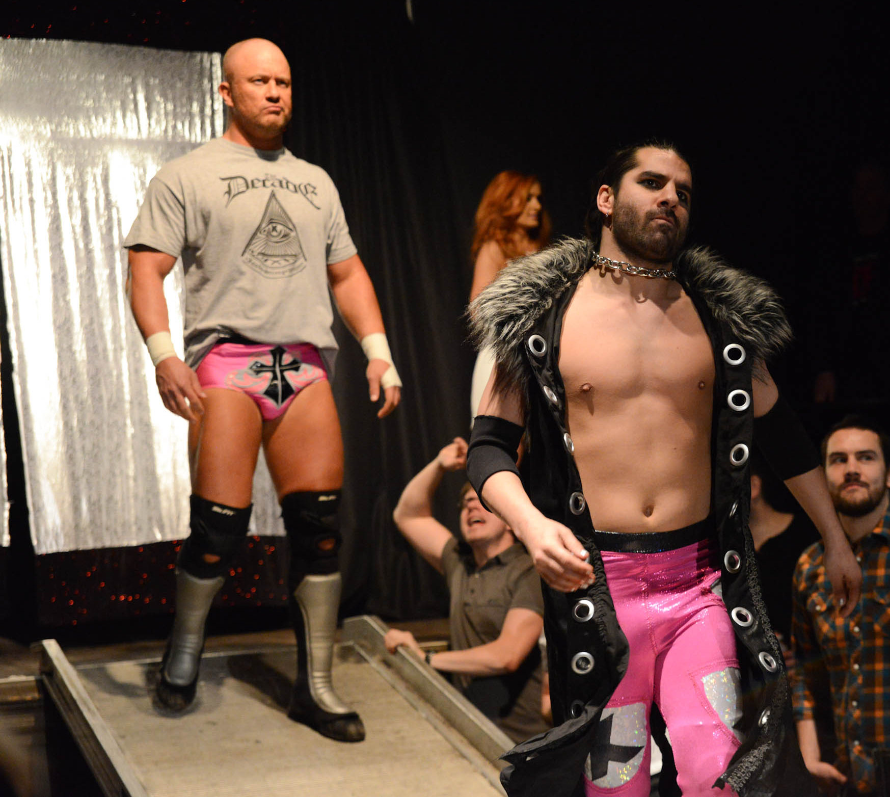 The Decade (BJ Whitmer, left, and Jimmy Jacobs, right) at ROH's Raising The Bar Night 1 show on March 7, 2014. Cropped from original image.